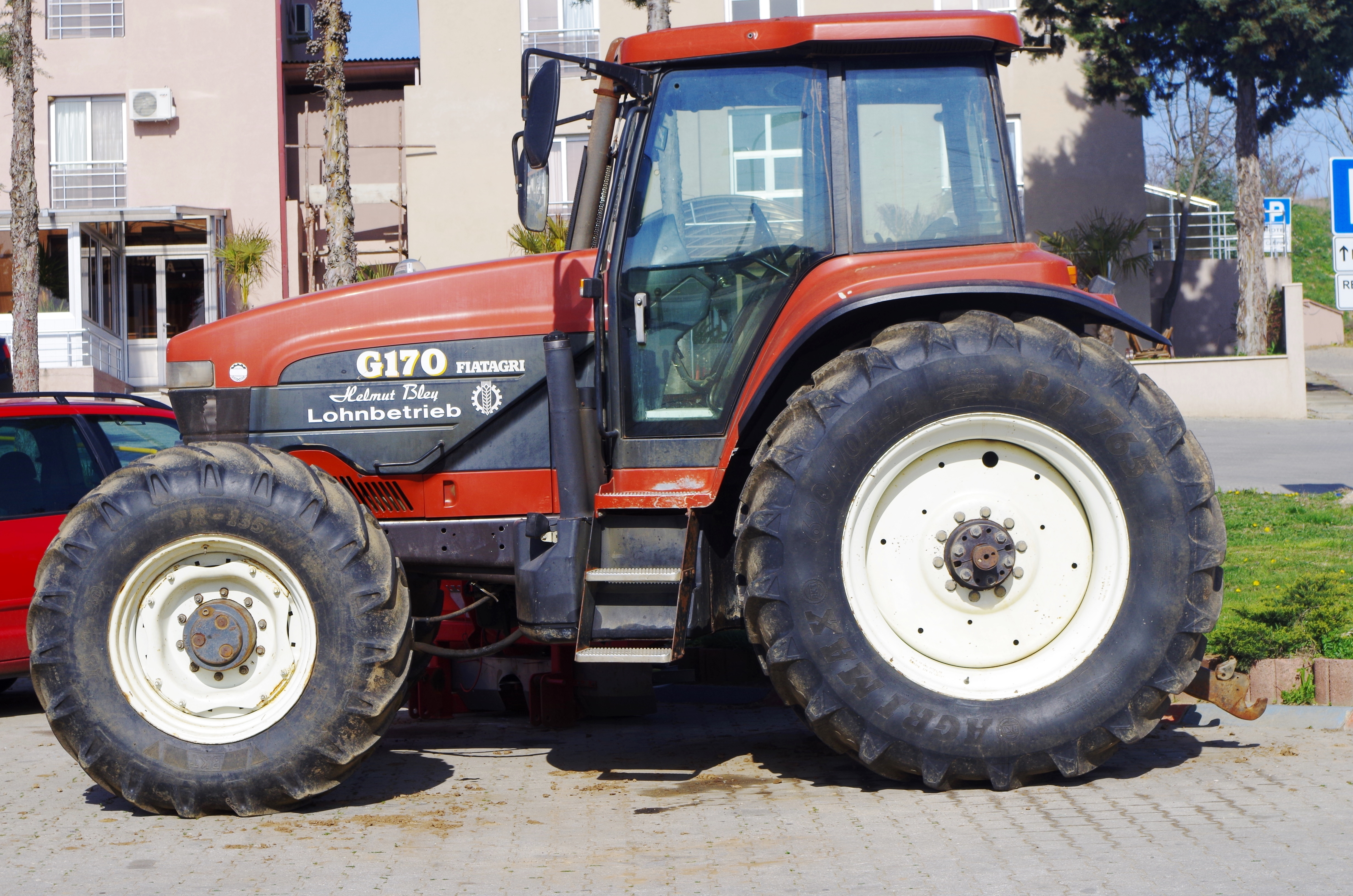 Tractor G170 Fiatagri Helmut Bley Lohnbetrieb